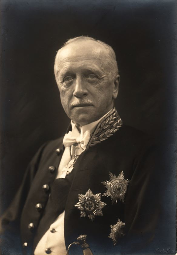 Portrait of Danish born Chinese customs official James Frederick Oiesen, 1857-1928 wearing a European style Chinese uniform and decorations.